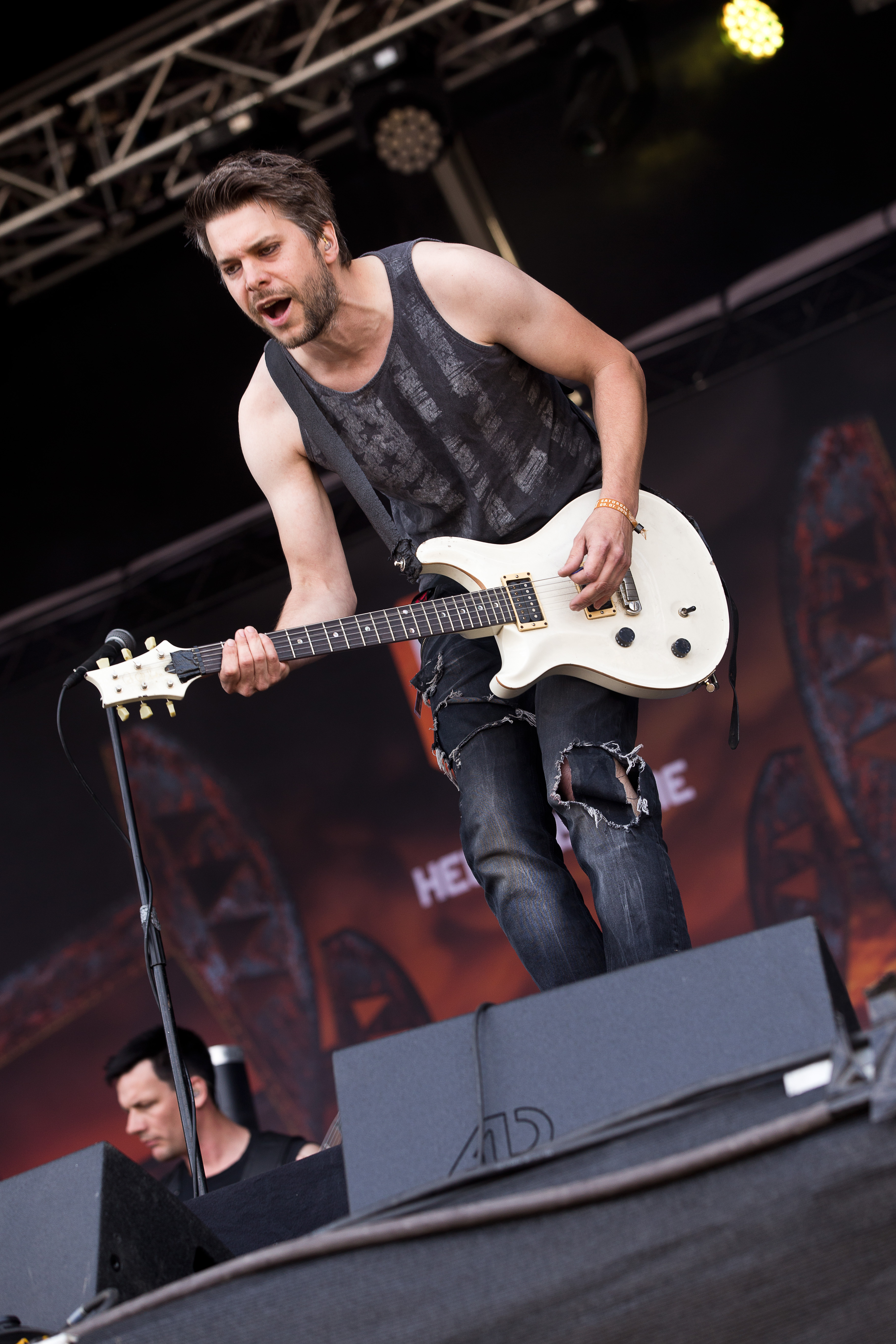 The German Neue Deutsche Härte band Heldmaschine at the Rockharz Open Air 2016 in Ballenstedt/Germany.